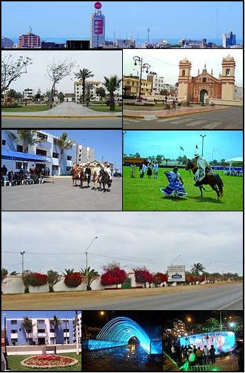 Photomontage of Victor Larco District